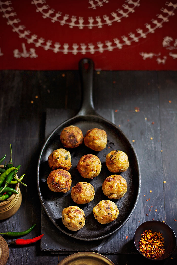 With the advent of Mughals came the concept of Koftas to India. A large part of India was influenced by Mughal cuisine. In Bengal, a region of eastern India, koftas are made with prawns, fish, green bananas, cabbage, as well as minced goat meat. They can be eaten as is or koftas are served with a spiced gravy, as dry versions are considered to be kebabs.